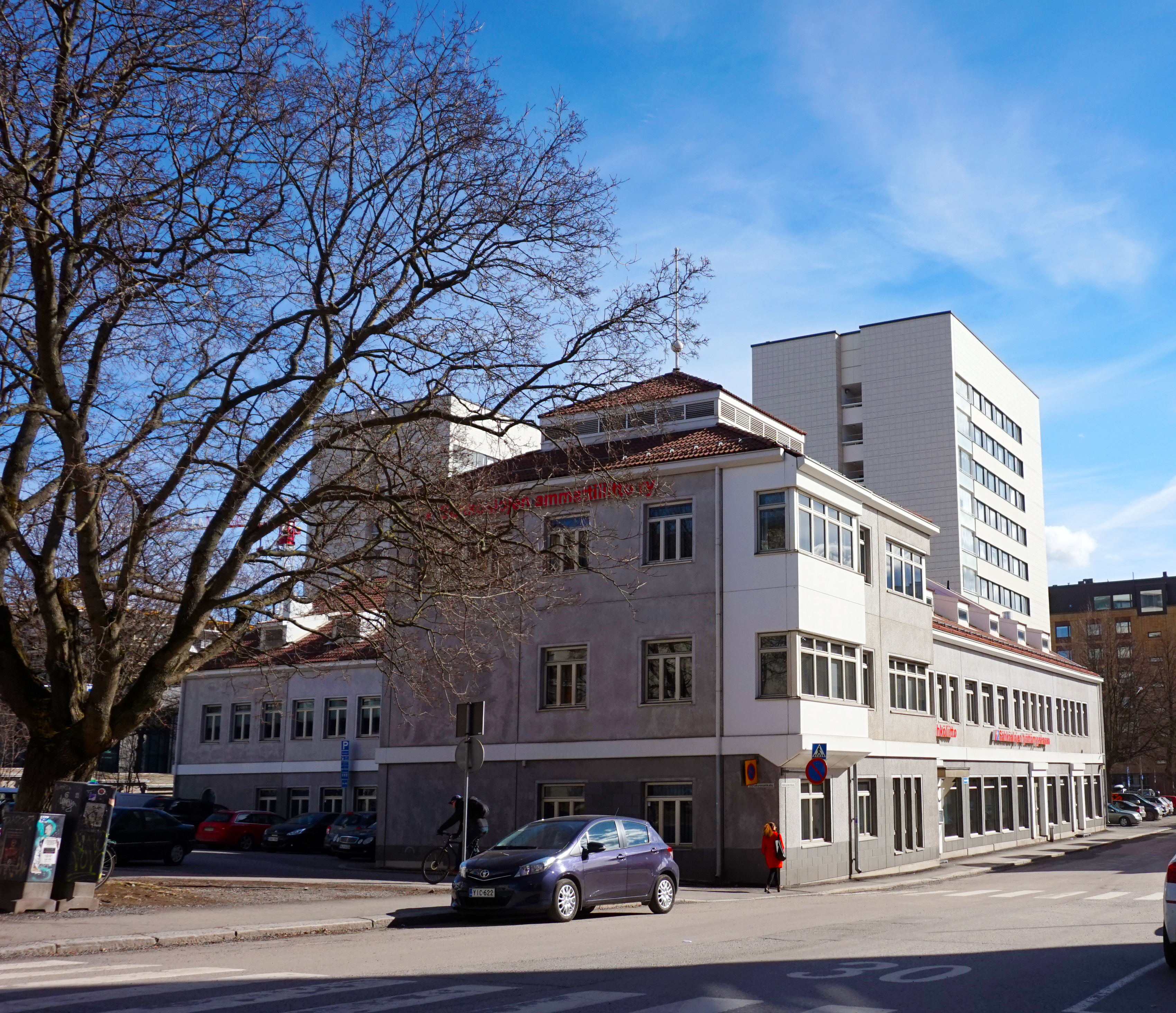 Aleksanterinkatu 15 in Tampere, Finland.